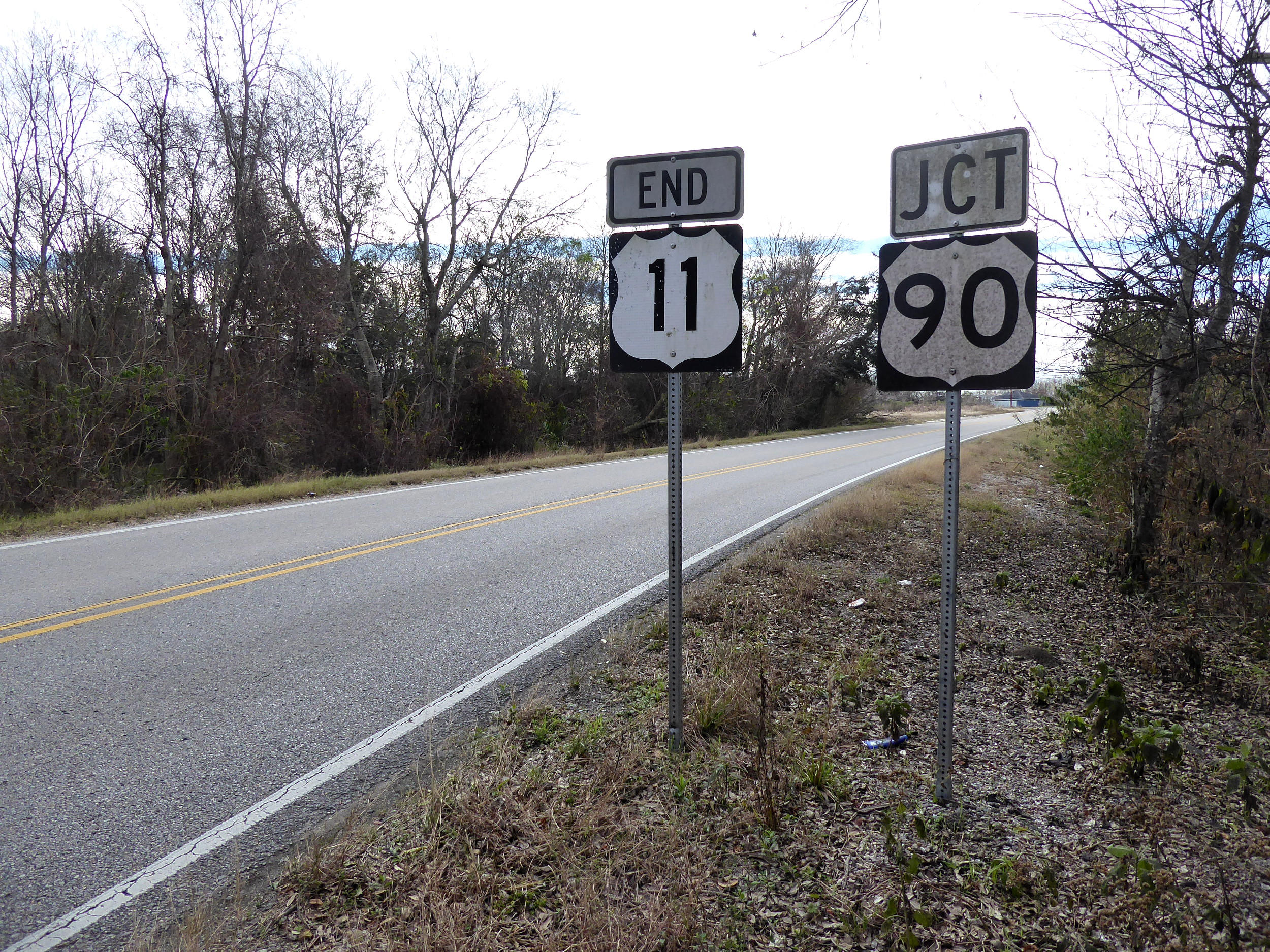 U.S. Route 11 southern terminus signage at U.S. Route 90 in New Orleans, Louisiana, USA.